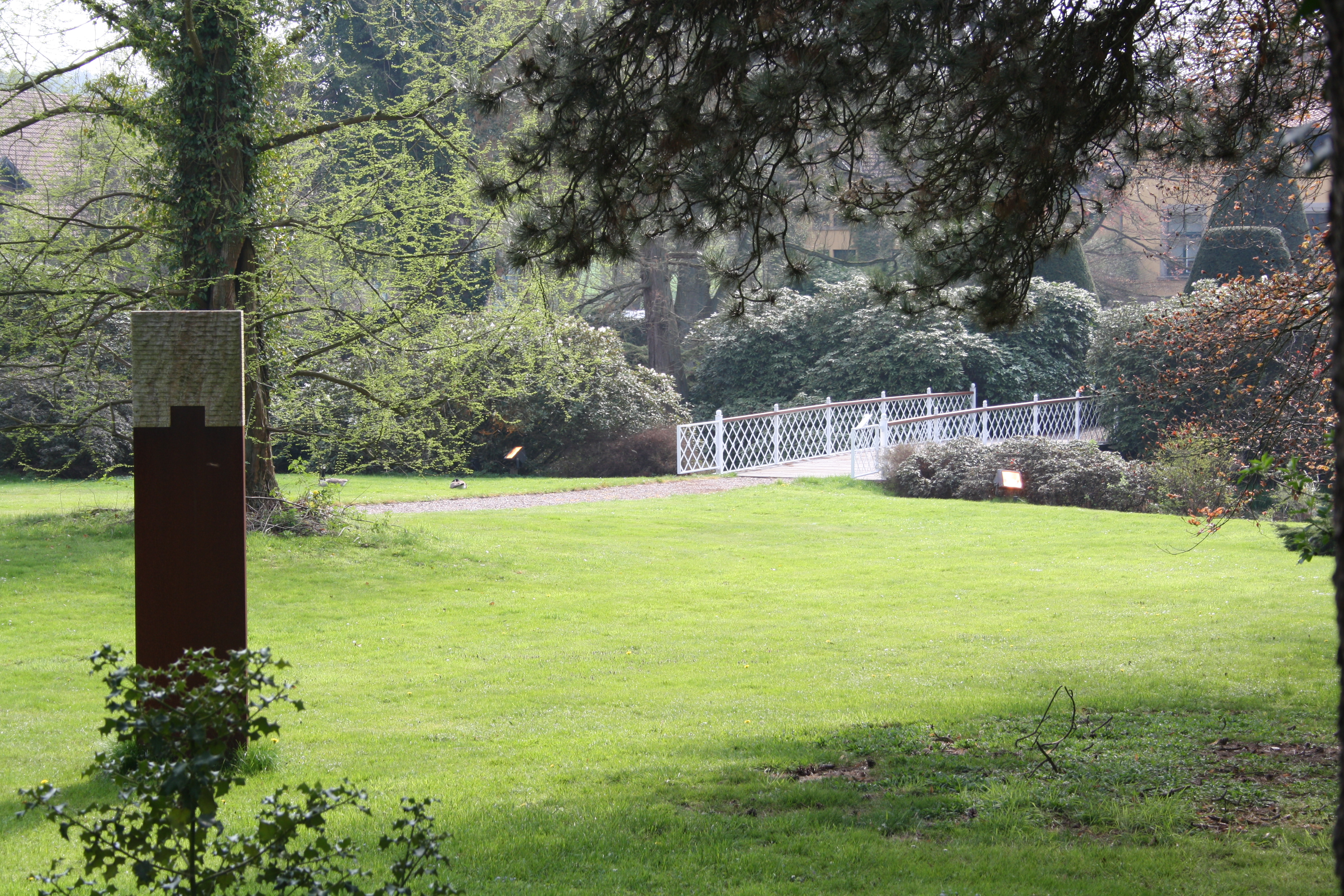 Böckel Castle in Rödinghausen, District of Herford, North Rhine-Westphalia, Germany.